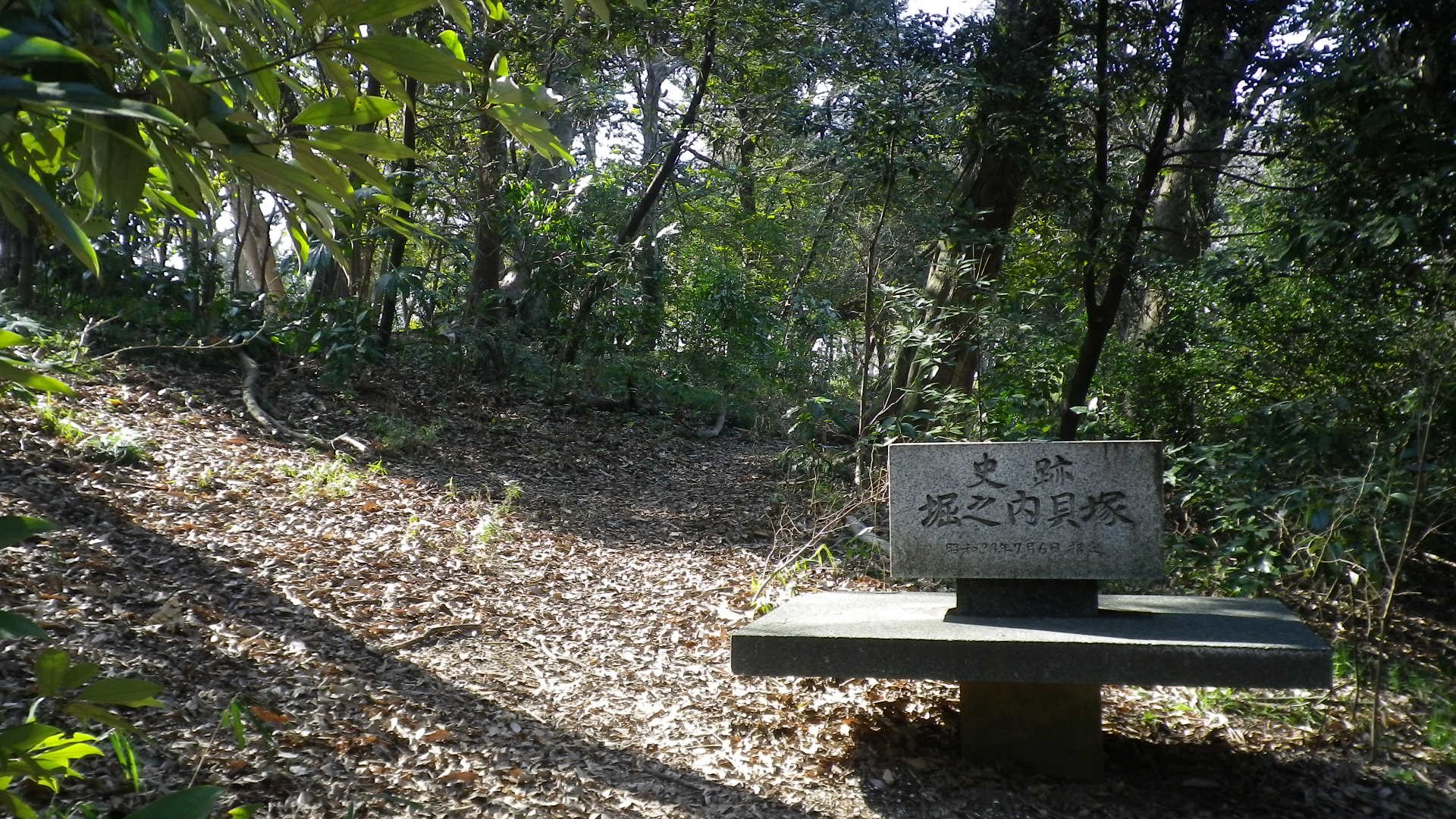 Horinouchi Shell Mound (Horinouchi kaizuka) in Ichikawa City, Chiba Prefecture, Japan